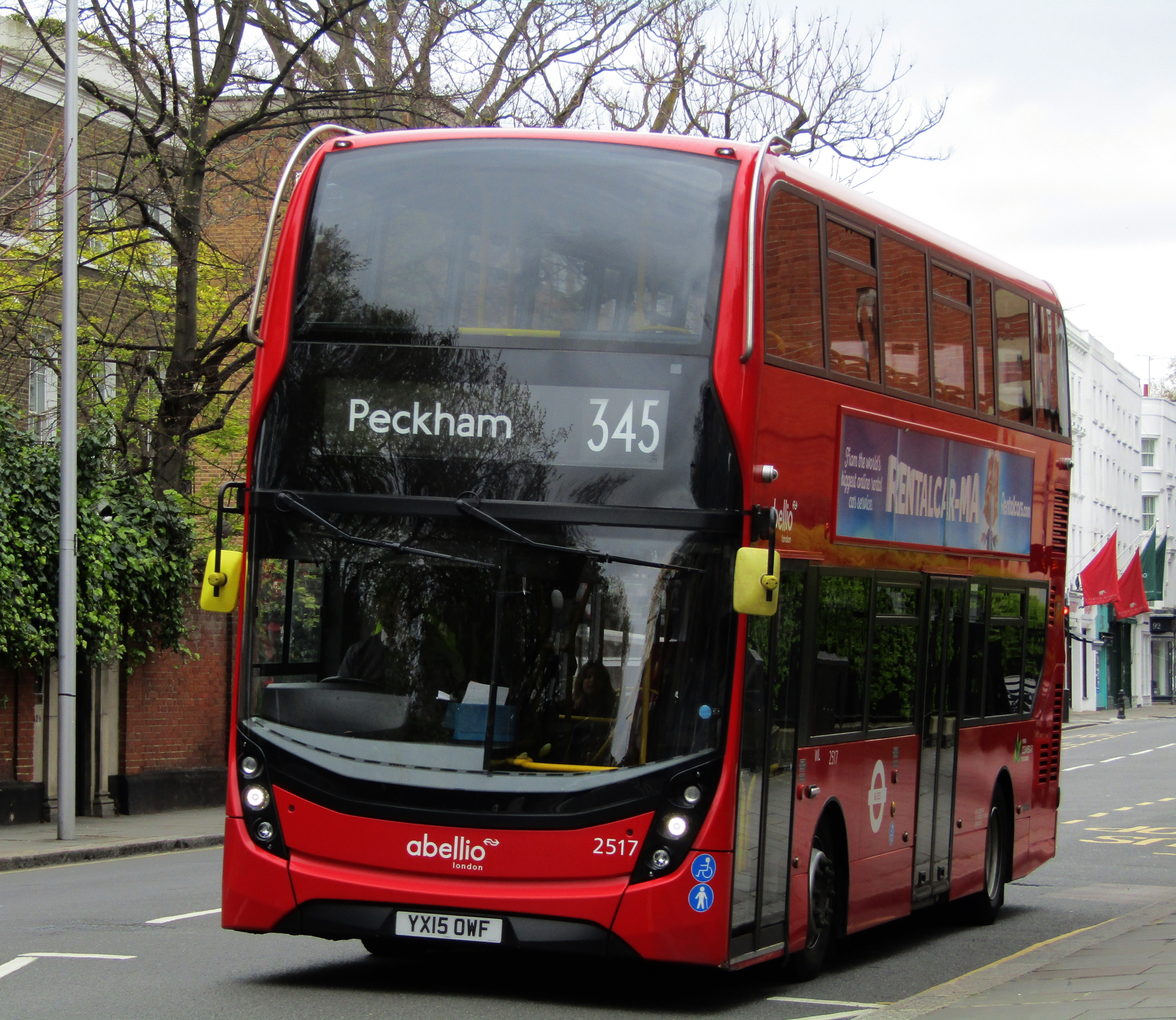 Abellio London - AD E40H/Alexander Dennis Enviro400 MMC - 2517 YX15OWF - Route 345